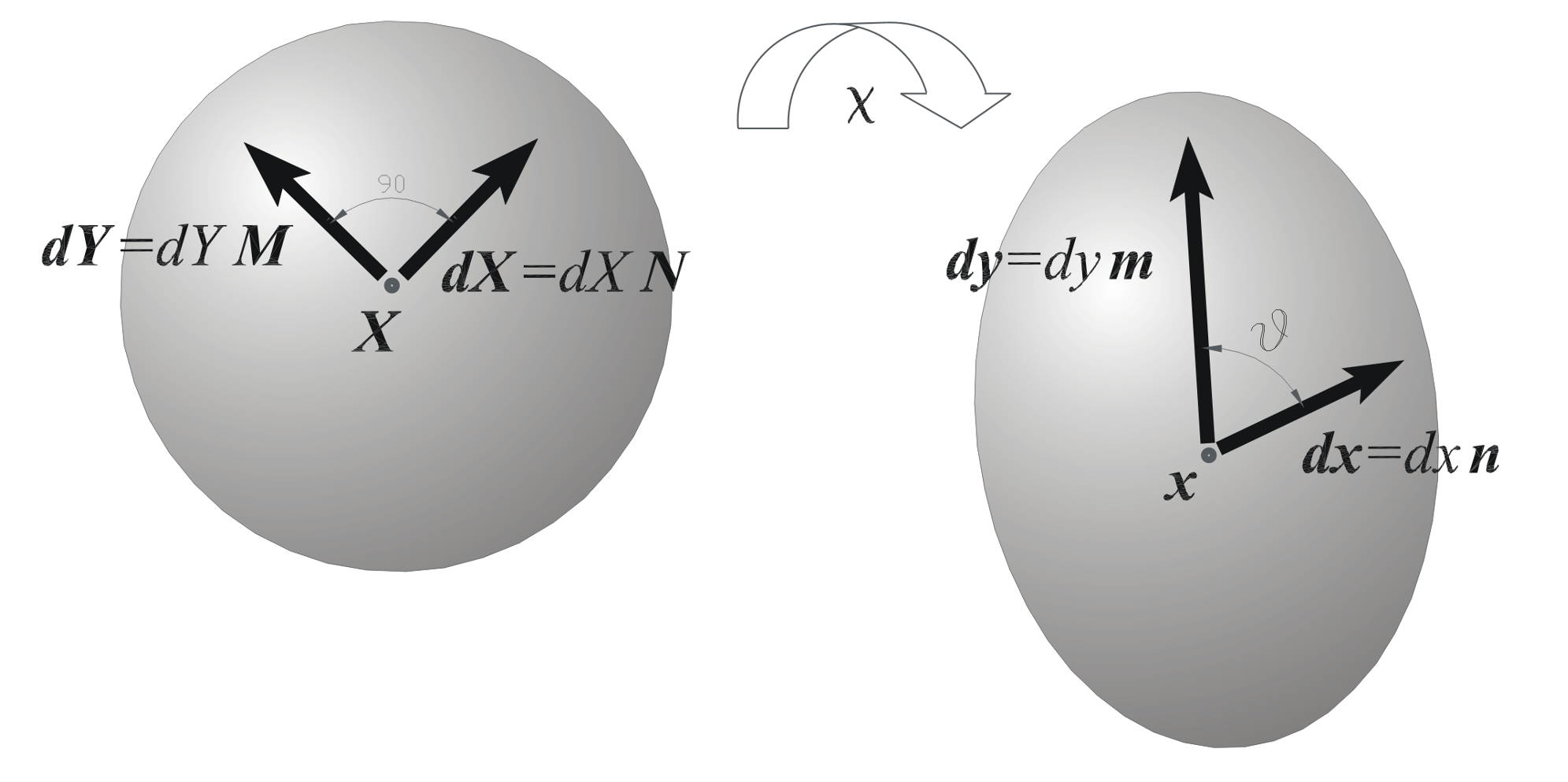 local angolar deformartion in Cauchy continuum body